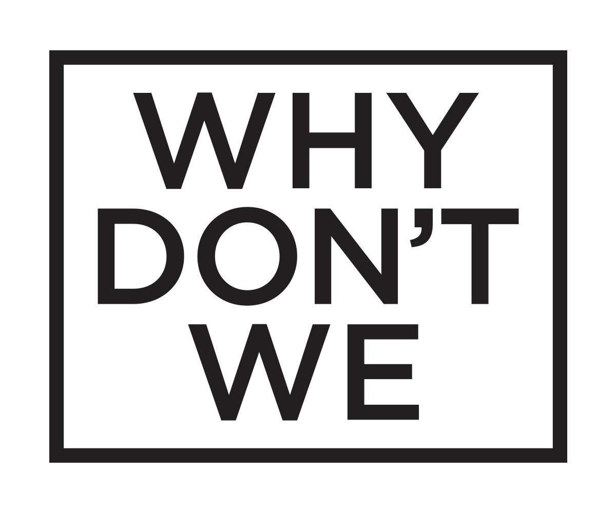 Why Don't We